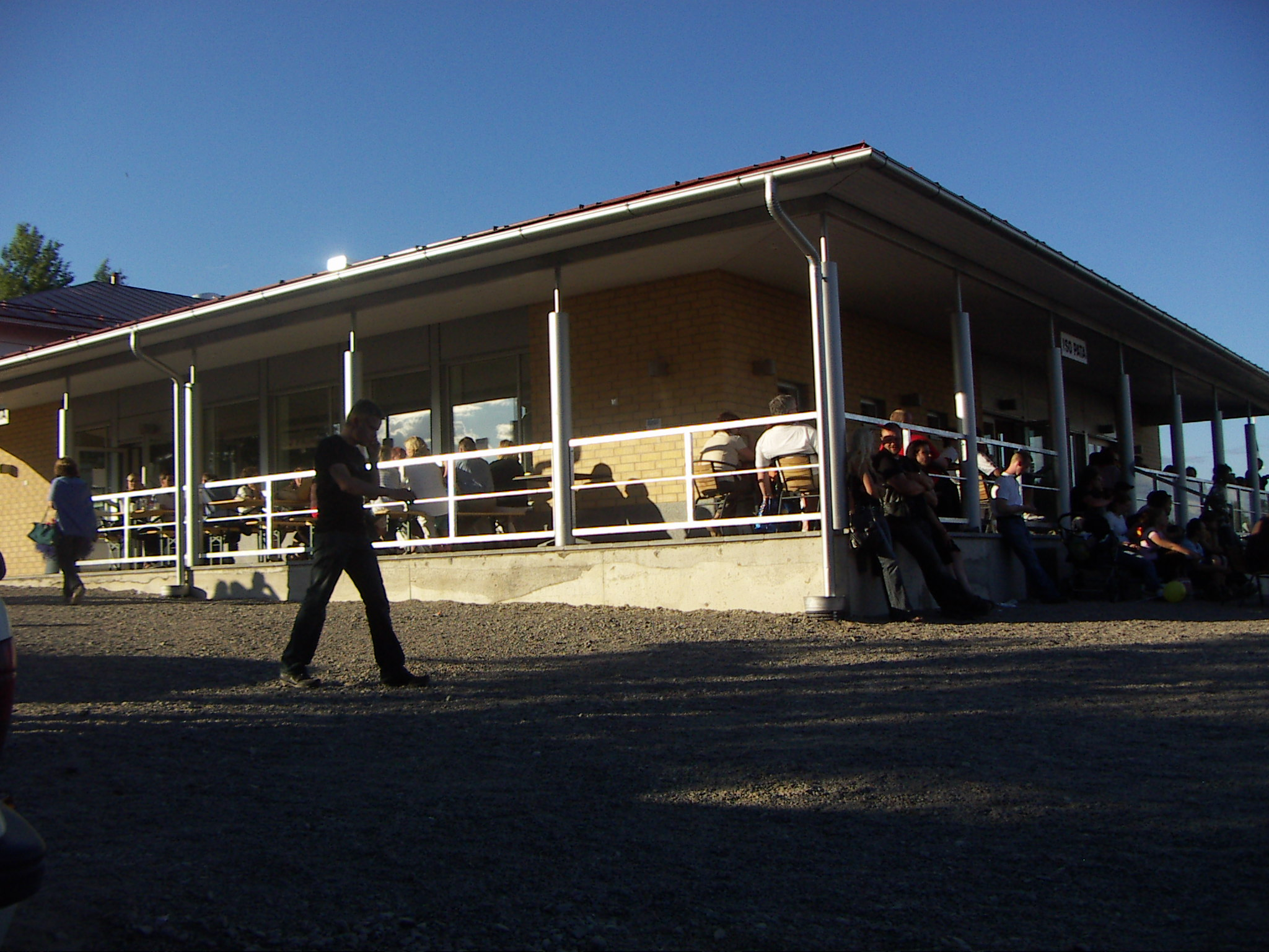 A picture of the new cafeteria "Iso Pata" in Iso Kirja. The photo is taken by myself.